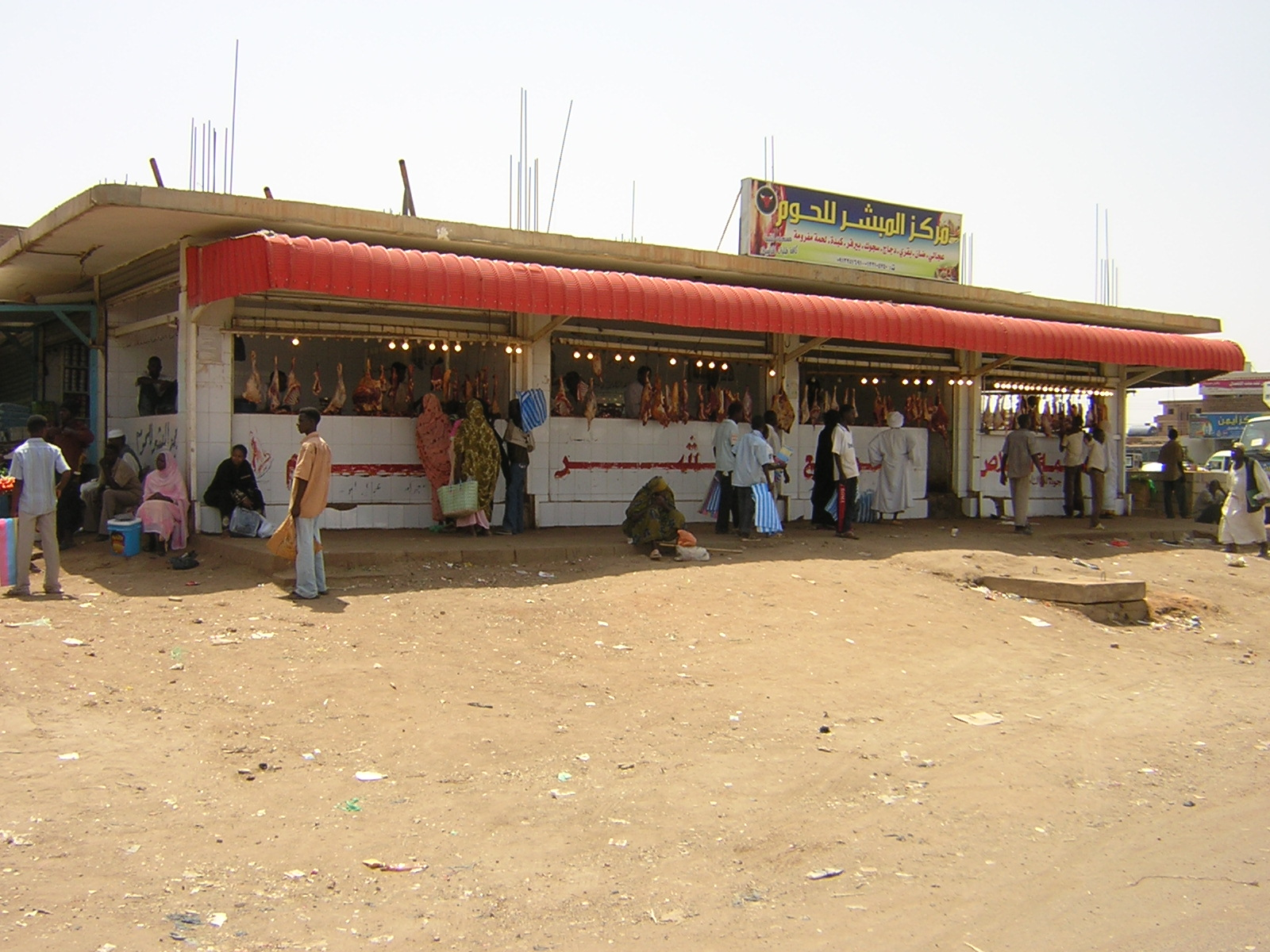 Market in Khartoum, Sudan.